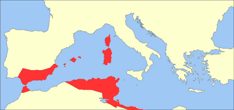 Exarchate of Africa (Byzantine Empire)